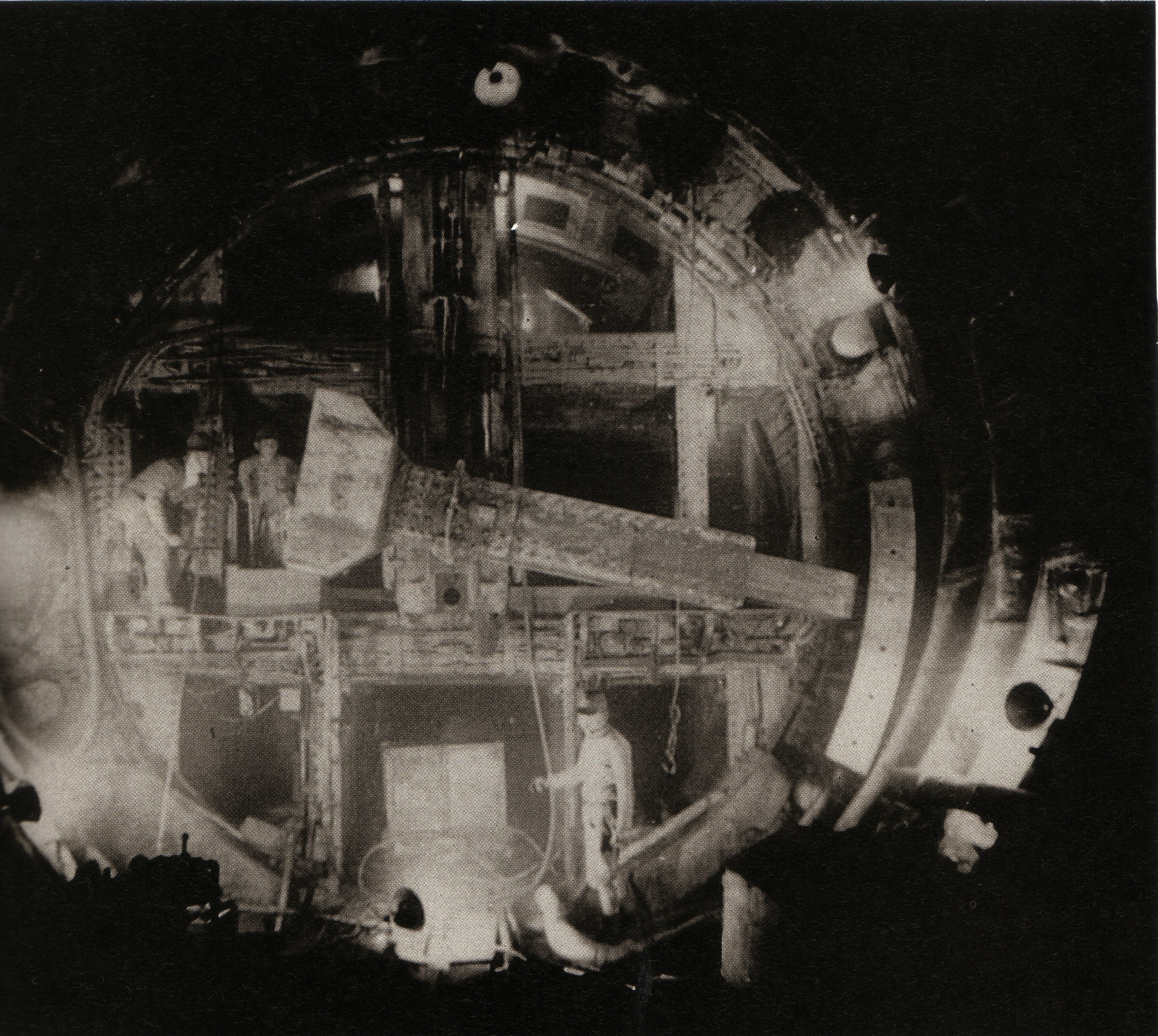 Construction work of Kammon railway tunnel.